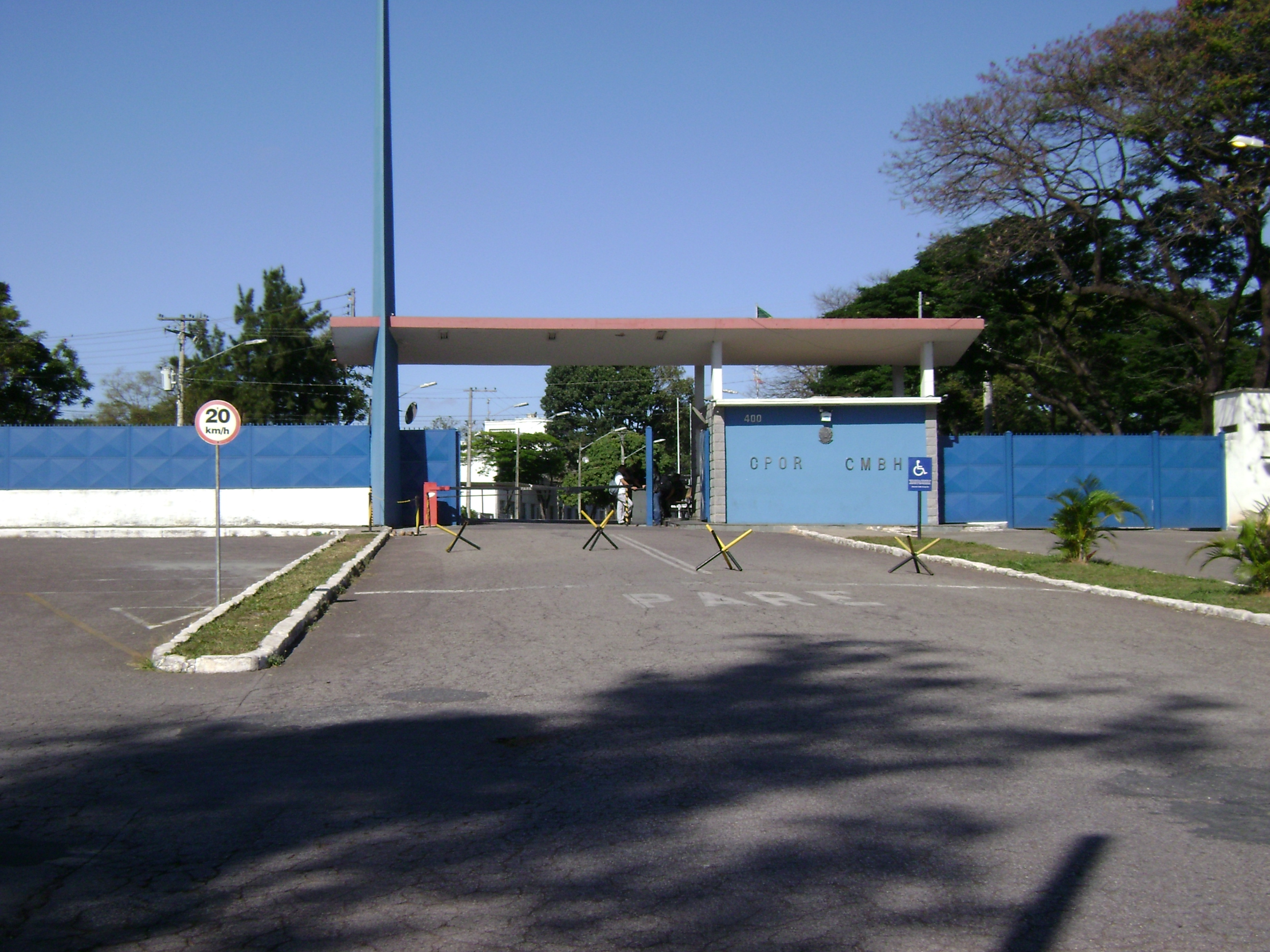 Entrance do CPOR / CMBH, in Belo Horizonte, Brazil.